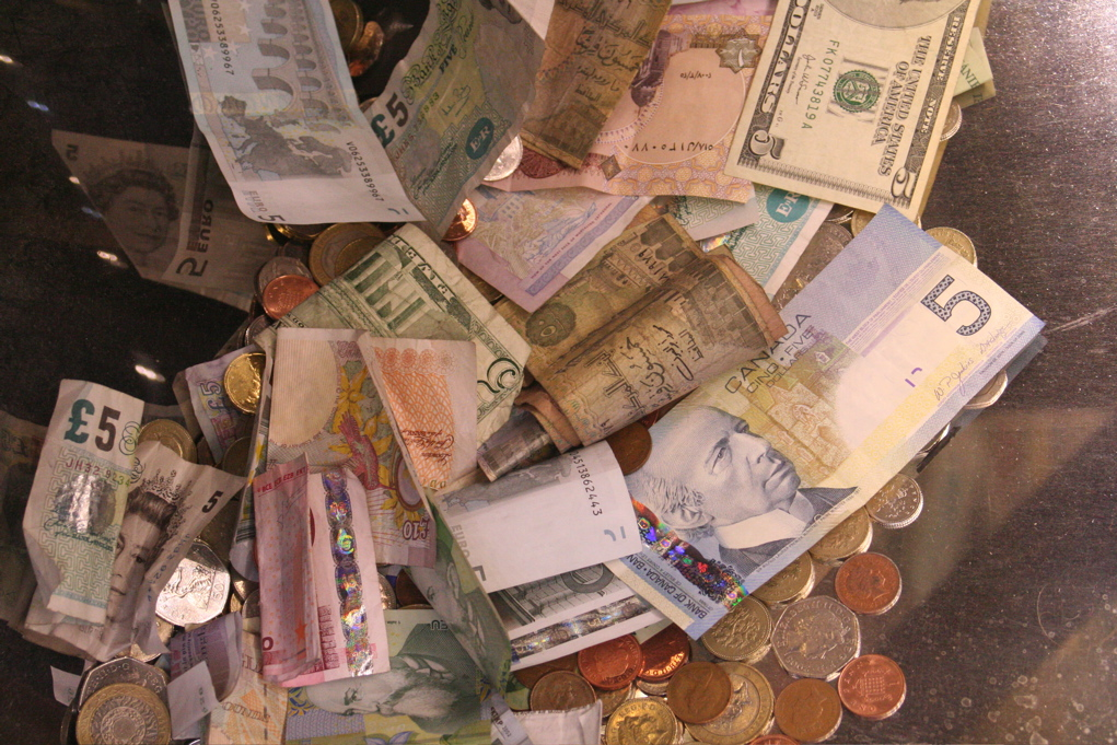 Photos from a 24 visit to London. Most of our time was in the British Museum, where we got to see the wonderful Chinese terra cotta army (no photos from that, though). Also saw a wonderfully fun play (39 Steps - no photos there either), and the £800M rennovation of St. Pancras (definitely photos).